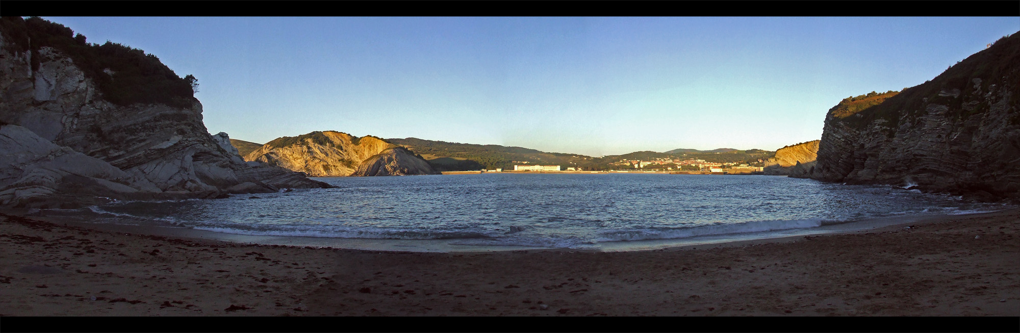 Muriola beach, in Barrika, and Gorliz at the background. Biscay, Basque Country